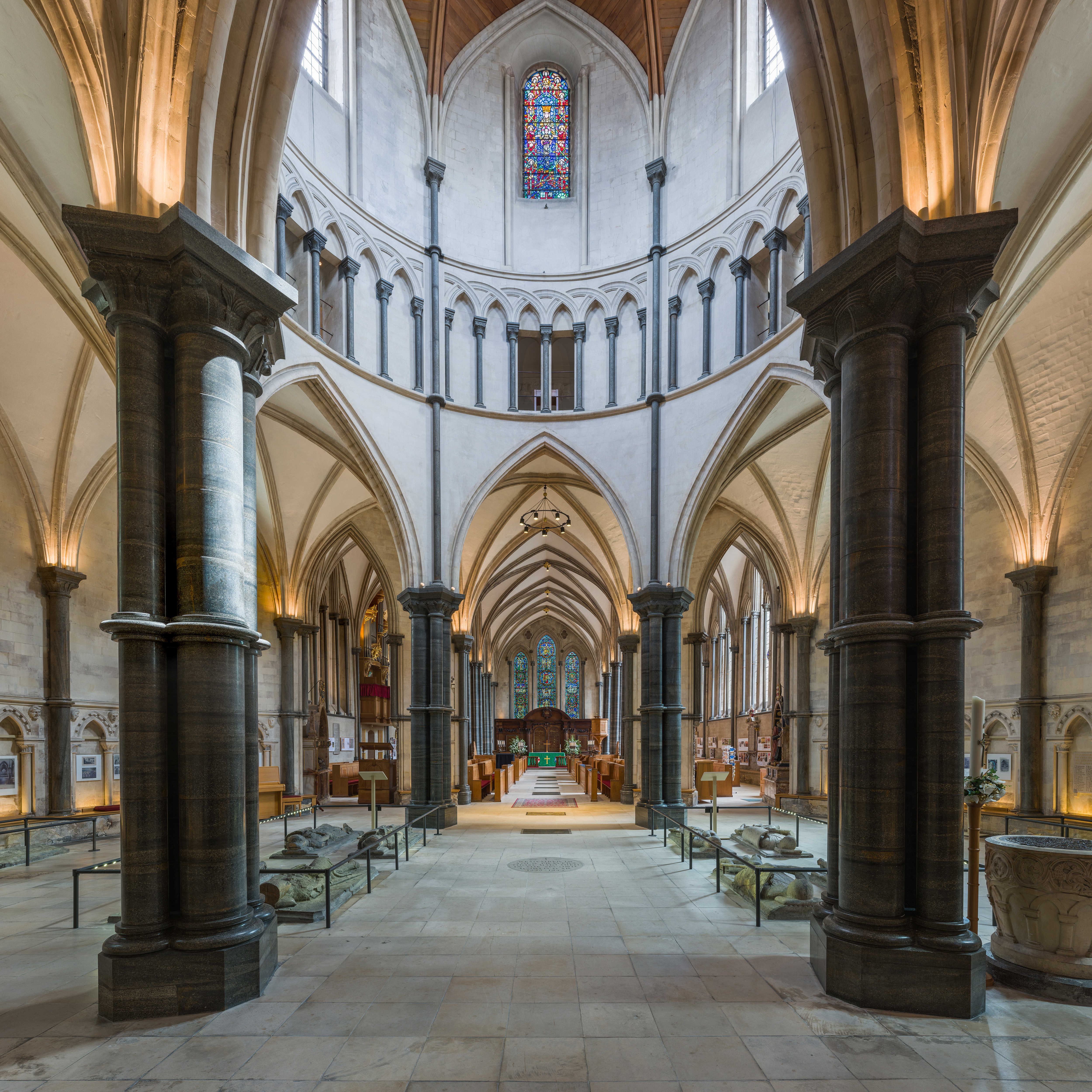 The view looking east across the round towards the altar at Temple Church in London, England.